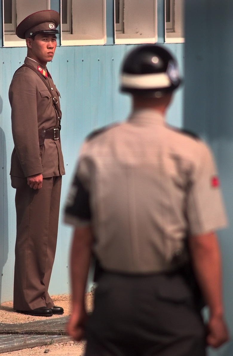 A North Korean Guard glares at a ROK Army Guard as they positioned themselves on either side of the Military Demarcation Line (MDL) prior to a repatriation ceremony at the Panmunjom Freedom House for what is believed to be five U.S. soldiers killed in the Korean War. A delegation of United Nations Command Military Armistice Commission (UNCMAC) officials received the remains from North Korean officials during the eighth repatriation ceremony held since joint search and recovery operations began in Korea in 1996. The five sets of remains brings the total returned to 19. Kim Yong-kyu, a spokesman for the U.N. command said the remains were recovered from Gaechon City, about 50 miles north of Pyongyang. The U.S. 2nd Infantry Division suffered nearly 5,000 casualties while retreating through the area after China entered the war in late 1950 heightening the possibility that the remains are of U.S. soldiers. The repatriated remains will be shipped to the Army's Central Identification Laboratory in Hawaii for processing. (U.S. Air Force photo by Staff Sgt Jim Varhegyi) (RELEASED)